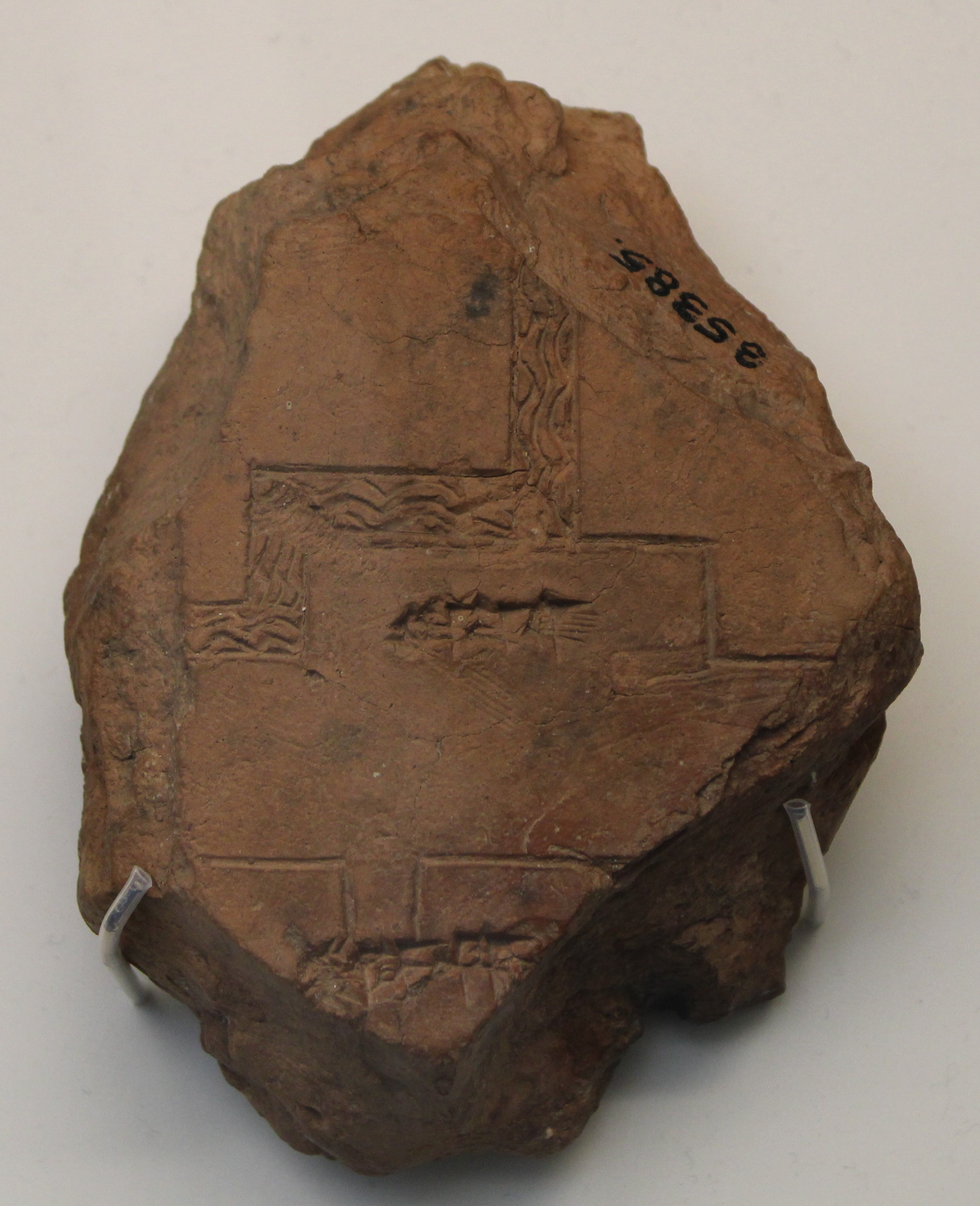 Fragment of a clay tablet, a map of Babylon. The area preserved is the Tuba area, southwest of the inner city. A canal crossing the area can be seen,bording the name "Tu-ba", and a part of the city wall, with the Shamash Gate whose name is inscribed. Probably from Babylon, 600-500 BC. ME 35385.